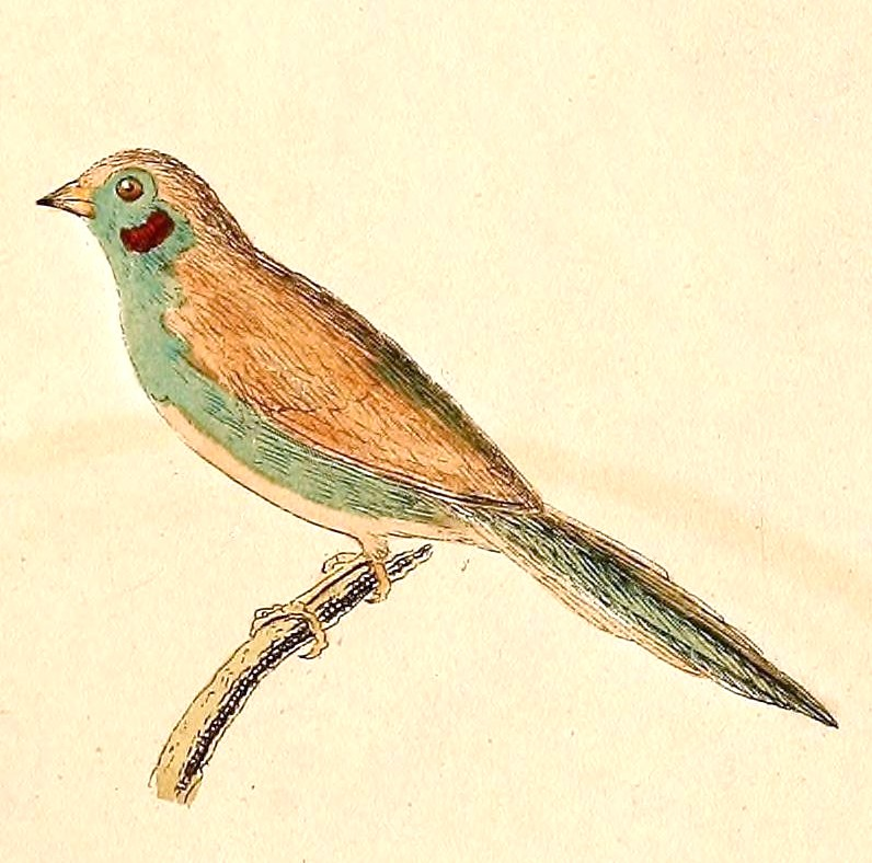 « Fringilla benghalus » = Uraeginthus bengalus (Red-cheeked Cordon-bleu)